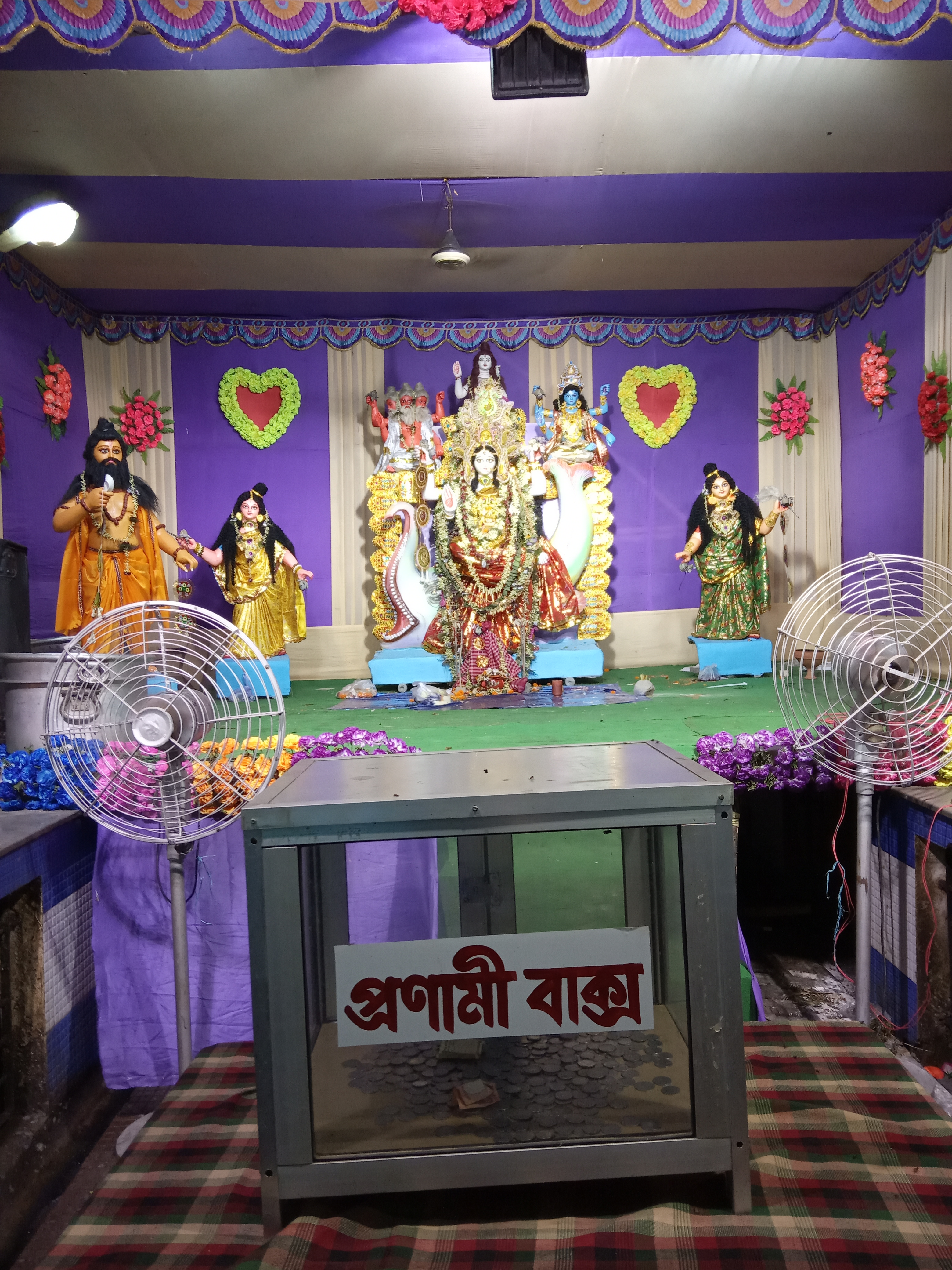 This is the idol of Goddess Ganga worshipped during the festival of Ganga Dusherra, a festival dedicated to river Goddes Ganga. This photo has been shot at Sakher Bazar area of Behala, Kolkata City.